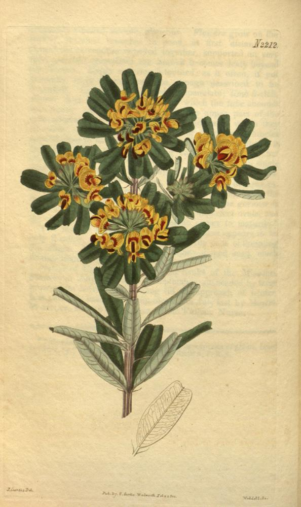 This is an image of Plate 2212 of Curtis's Botanical Magazine, Volume 48. It is a lithographed botanical illustration of Gastrolobium bilobum (Heart-leaved Poison).